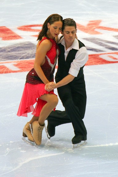 Sinead Kerr & John Kerr at the 2006 Skate America.